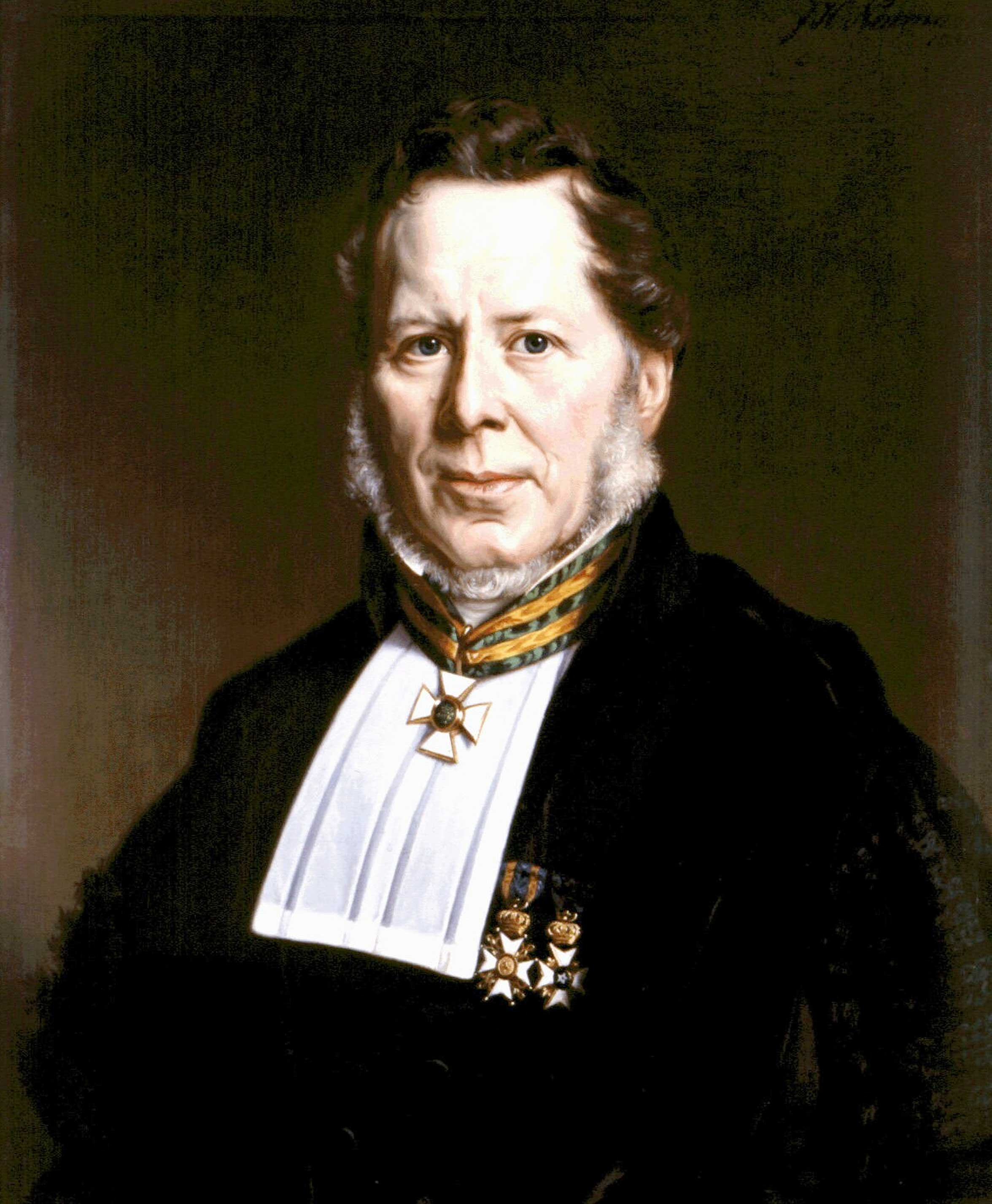 Jacobus Ludovicus Conradus Schroeder van der Kolk (1797-1862) Dutch physicians